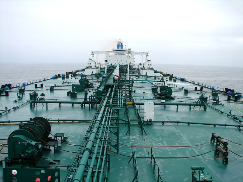 View of the deck on the oil tanker, looking aft.